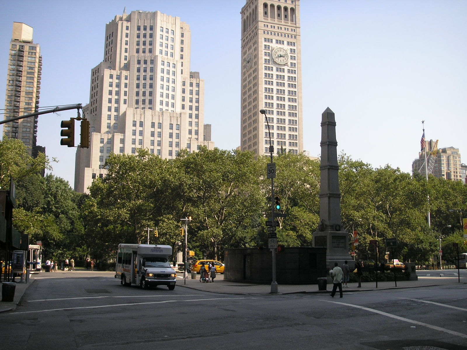 Metropolitan Life Insurance Company Tower at Madison Square in New York City.